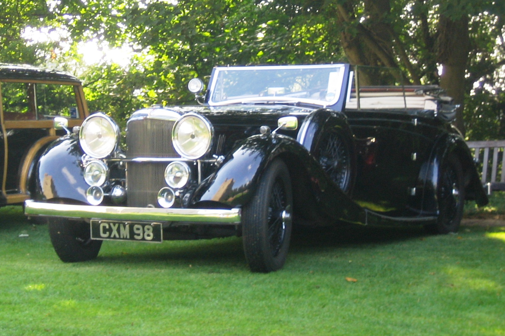 Alvis 3 1/2 litre cabriolet on the castle mound at Castle Hedingham (DVLA) First registered 27 July 1936, 3571cc